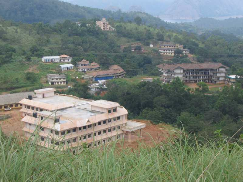 Jayakrishnaraj G. Asst. Prof. in ECE GEC Idukki